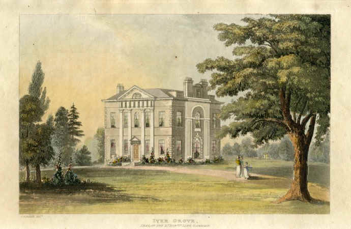 Old Print of Iver Grove, Buckinghamshire